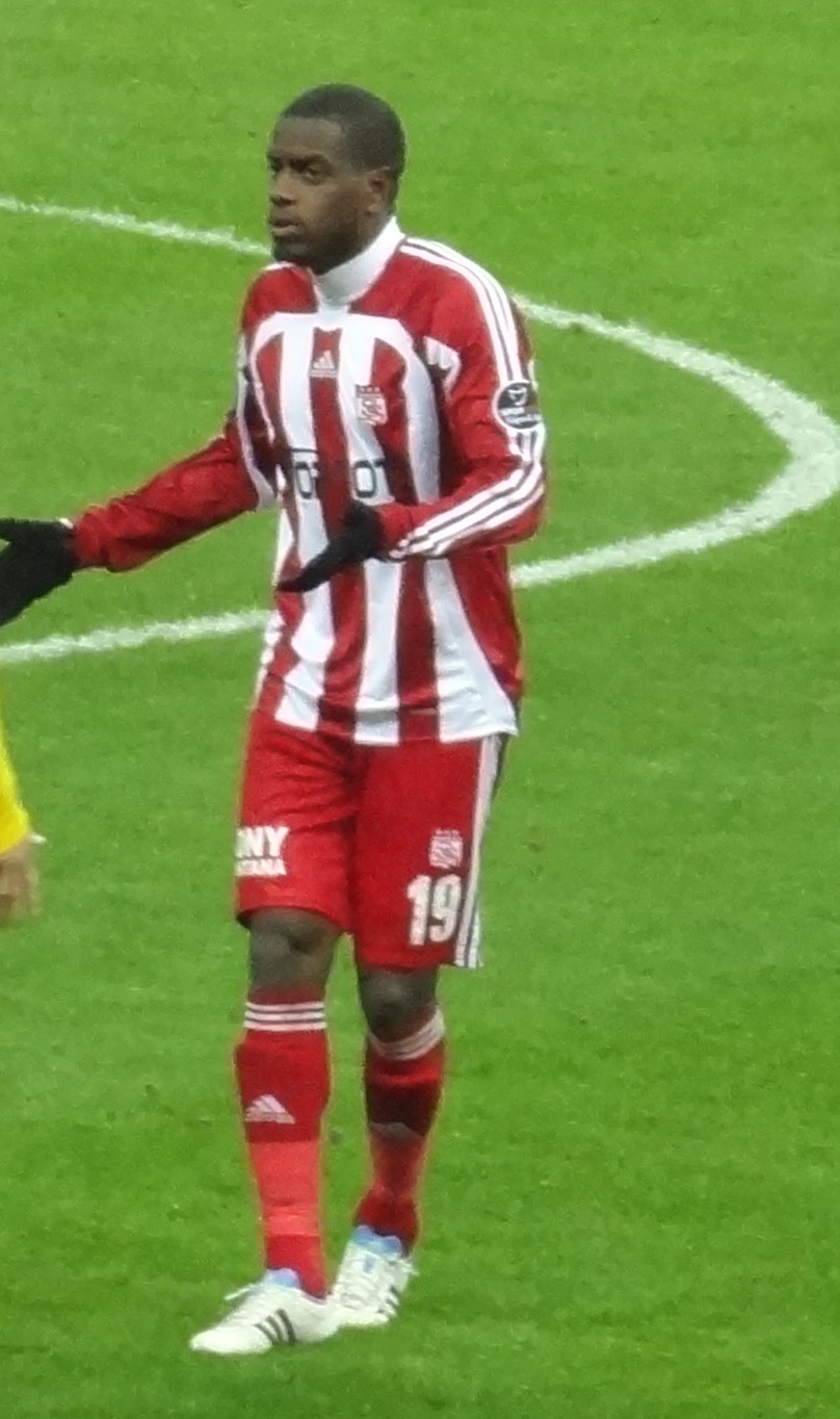 faty against gs